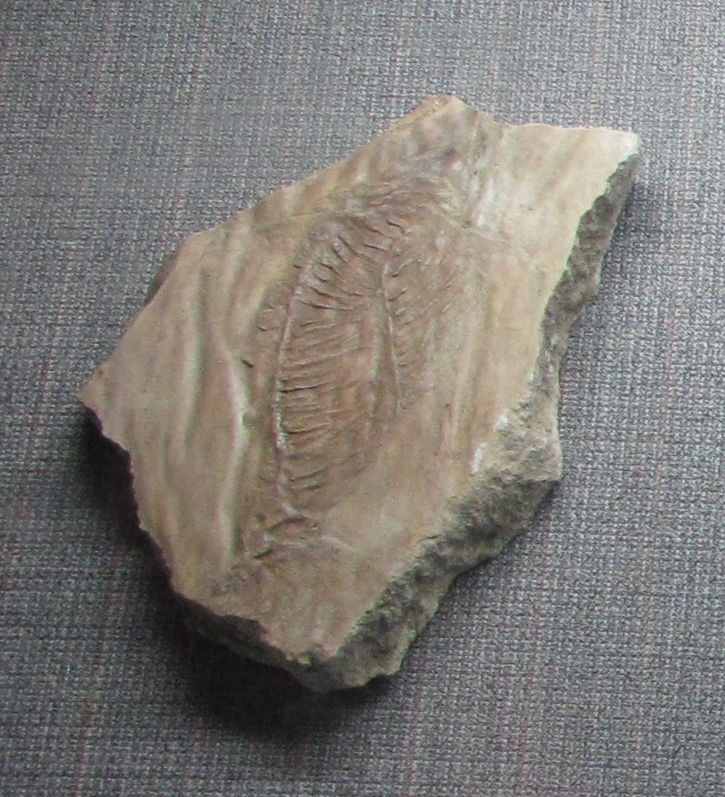 Yunnanozoon lividum - Chongqing Beibei Museum